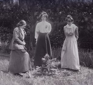 Adela Pankhurst, Kitty and Annie Kenney 1910. This picture was taken by Colonel Linley Blathwayt and was stored on glass negatives. The Blathwayt's home of Eagle House way the home of Linley, Emily, William and Mary Blathwayt who all actively supported the suffragette cause. Nearly all the prominent UK suffragettes stayed with them and these photos and dozens of trees were planted to commemorate their visits. Col. Linley Blathwayt took these pictures between 1908 and 1912. He died in 1919. The pictures are made available in larger formats by .